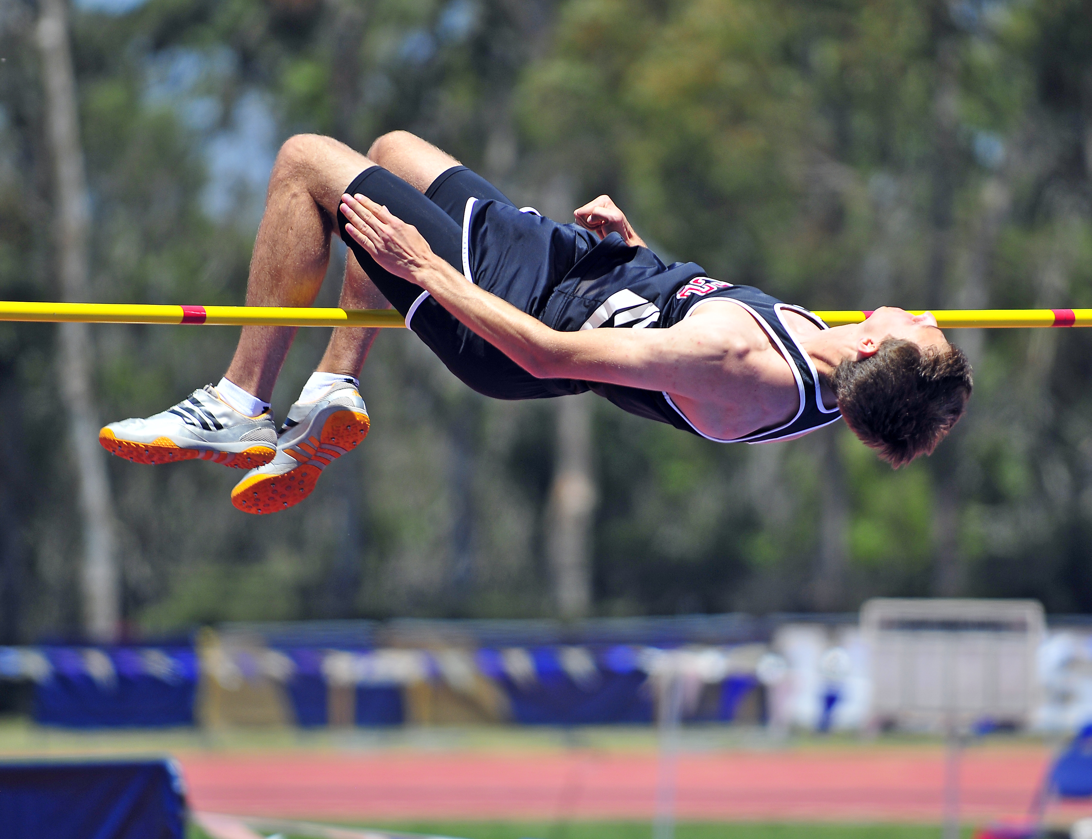 Men's high jump. Ryan Bertucci of Chico State jumps 7' 14".